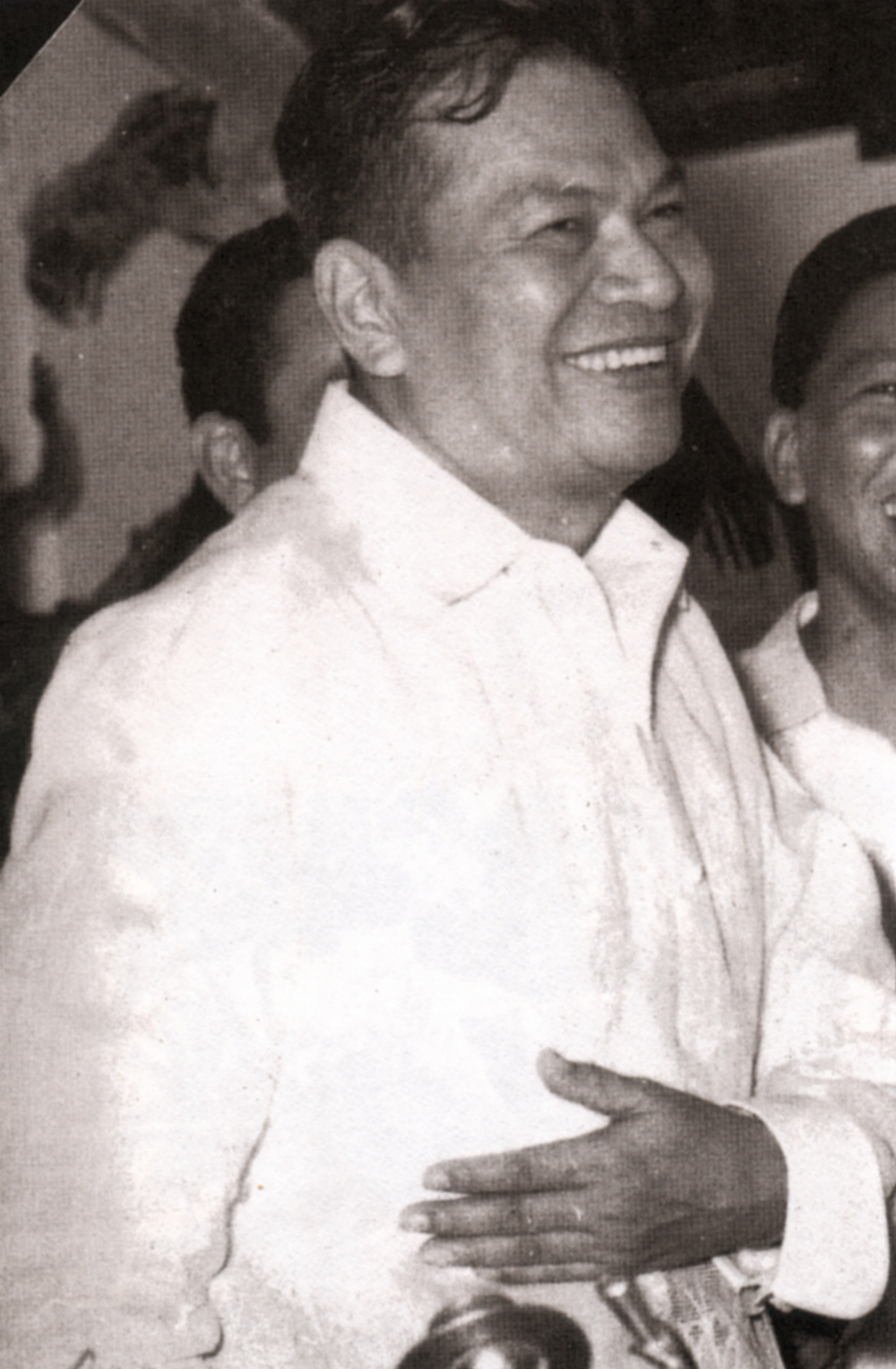 Portrait photo of President Ramon Magsaysay